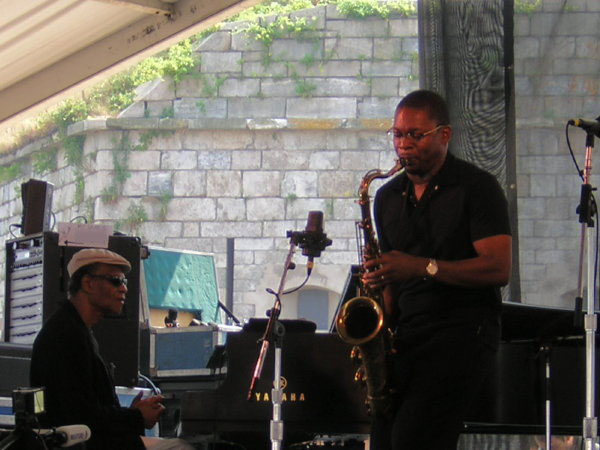 Picture of McCoy Tyner and Ravi Coltrane performing at the Newport Jazz Festival in Newport, Rhode Island, on August 13, 2005.